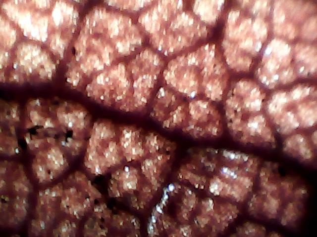 Dry leave